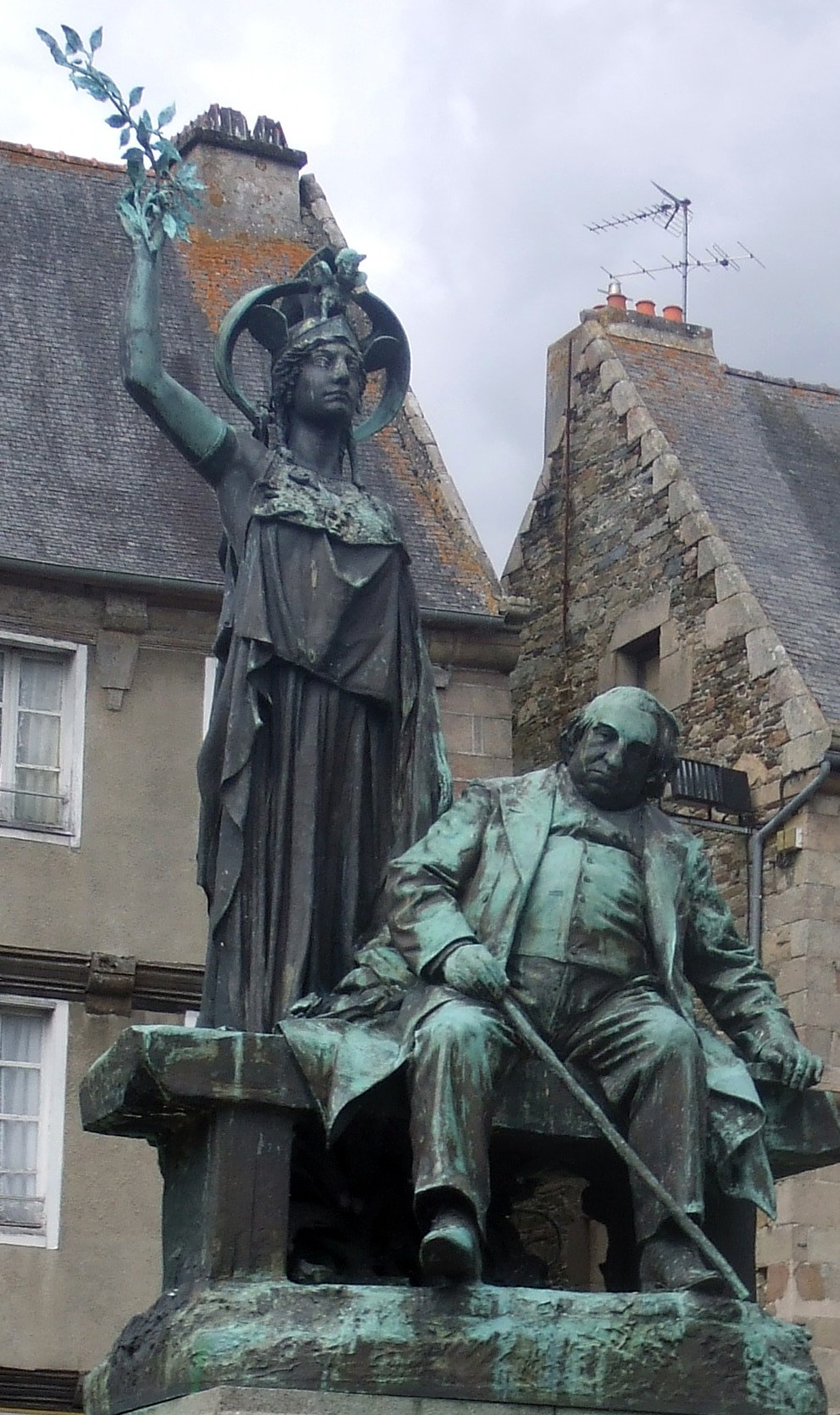 User